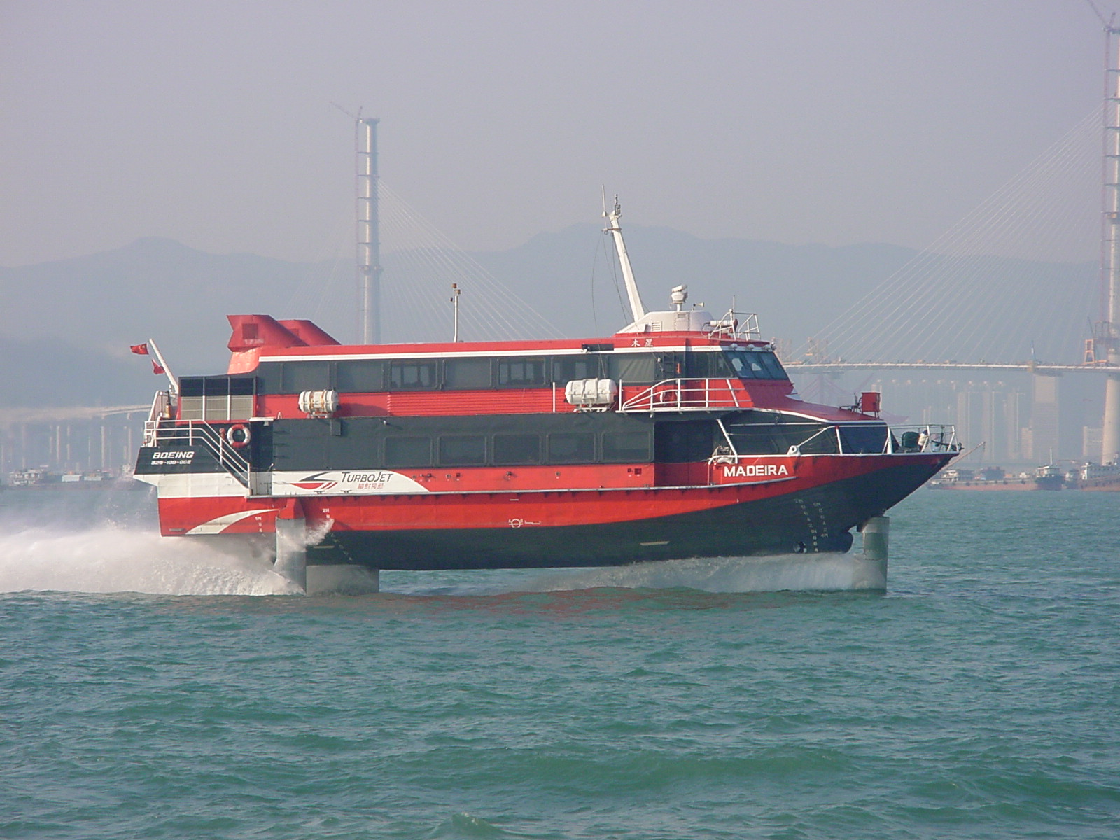 TurboJET's Madeira Boeing 929 (Jetfoil) hydrofoil